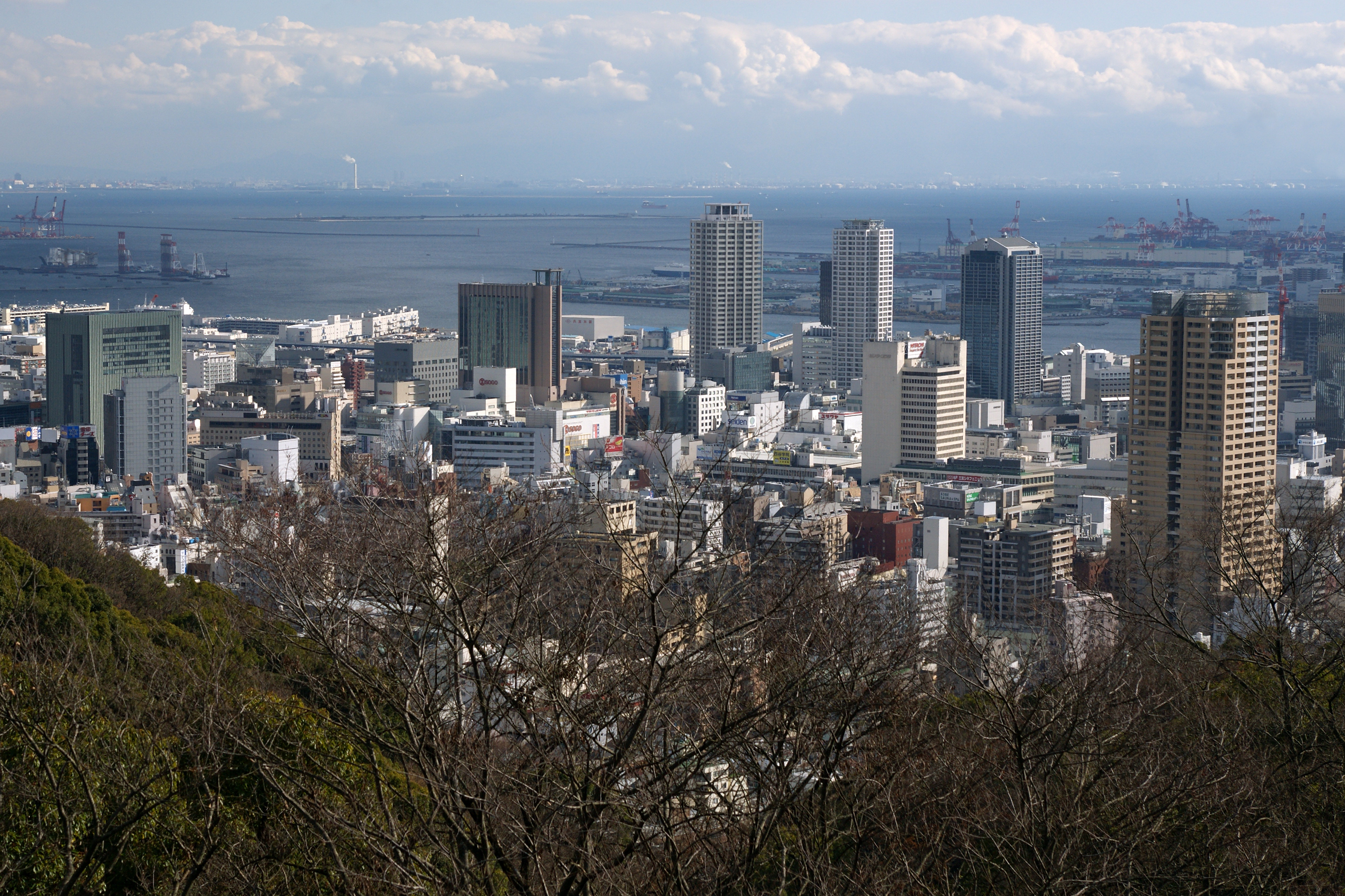 Sannomiya view from Mt. Suwa in Kobe, Hyogo prefecture, Japan